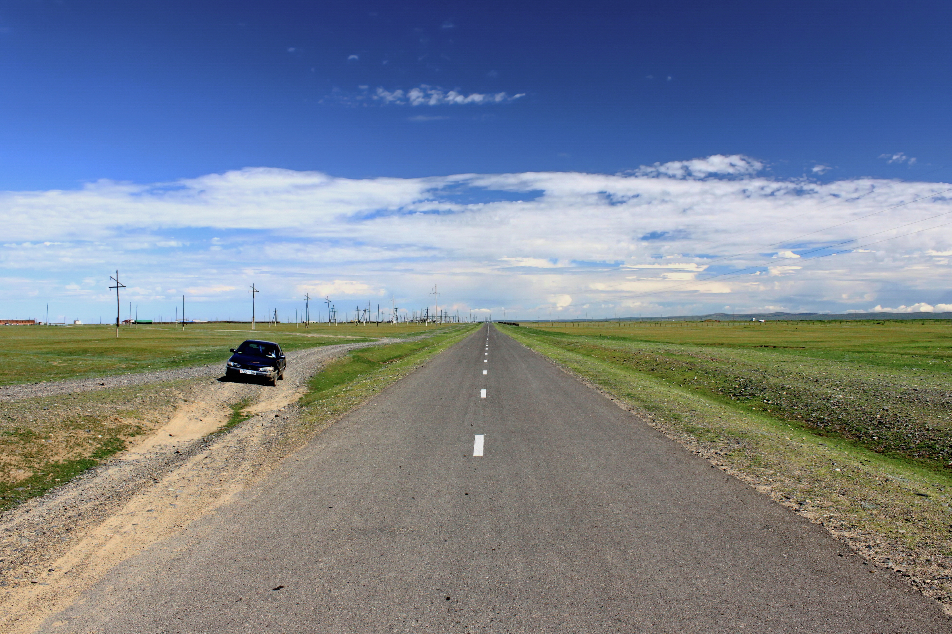 Khushuu Tsaidam road. Kharkhorin, Övörkhangai Province, Mongolia.